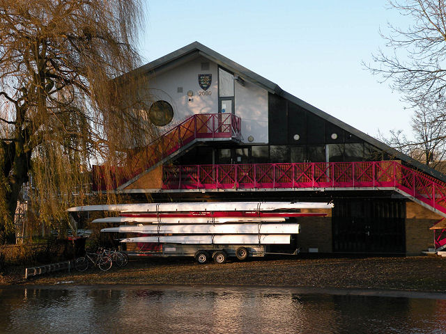 Downing College Boathouse With a trailer of boats, the longest of which are disassembled into halves for convenient transport